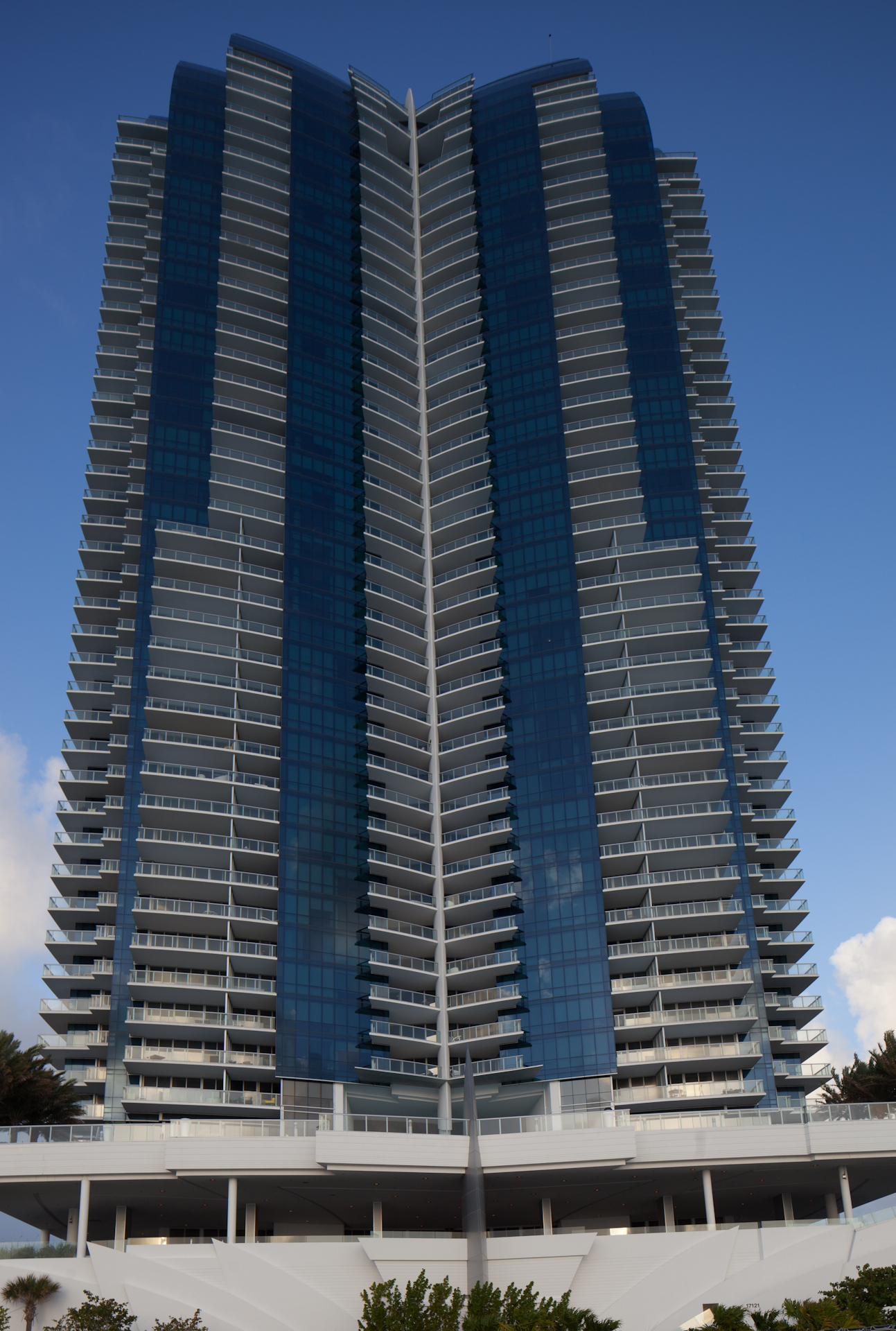 Jade Ocean Condo in Sunny Isles Beach.